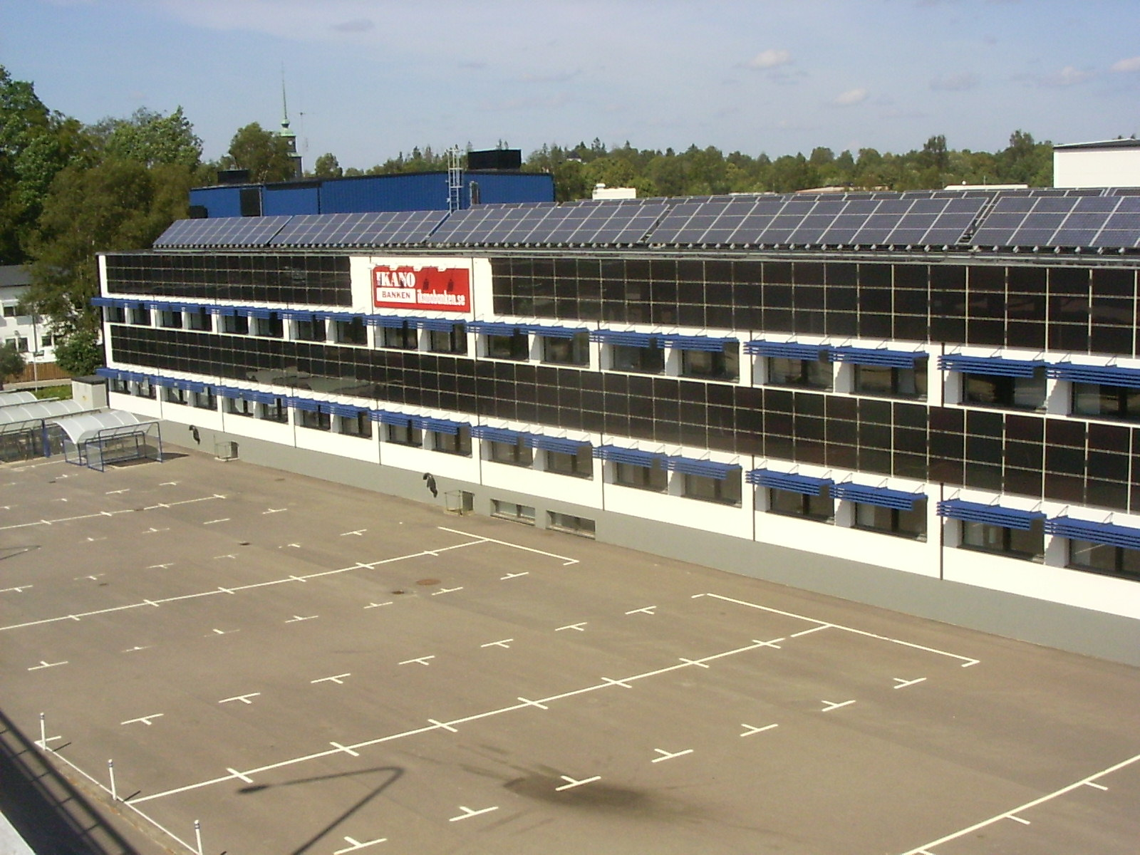 Headquartes of Ikano Bank in Älmhult , Sweden